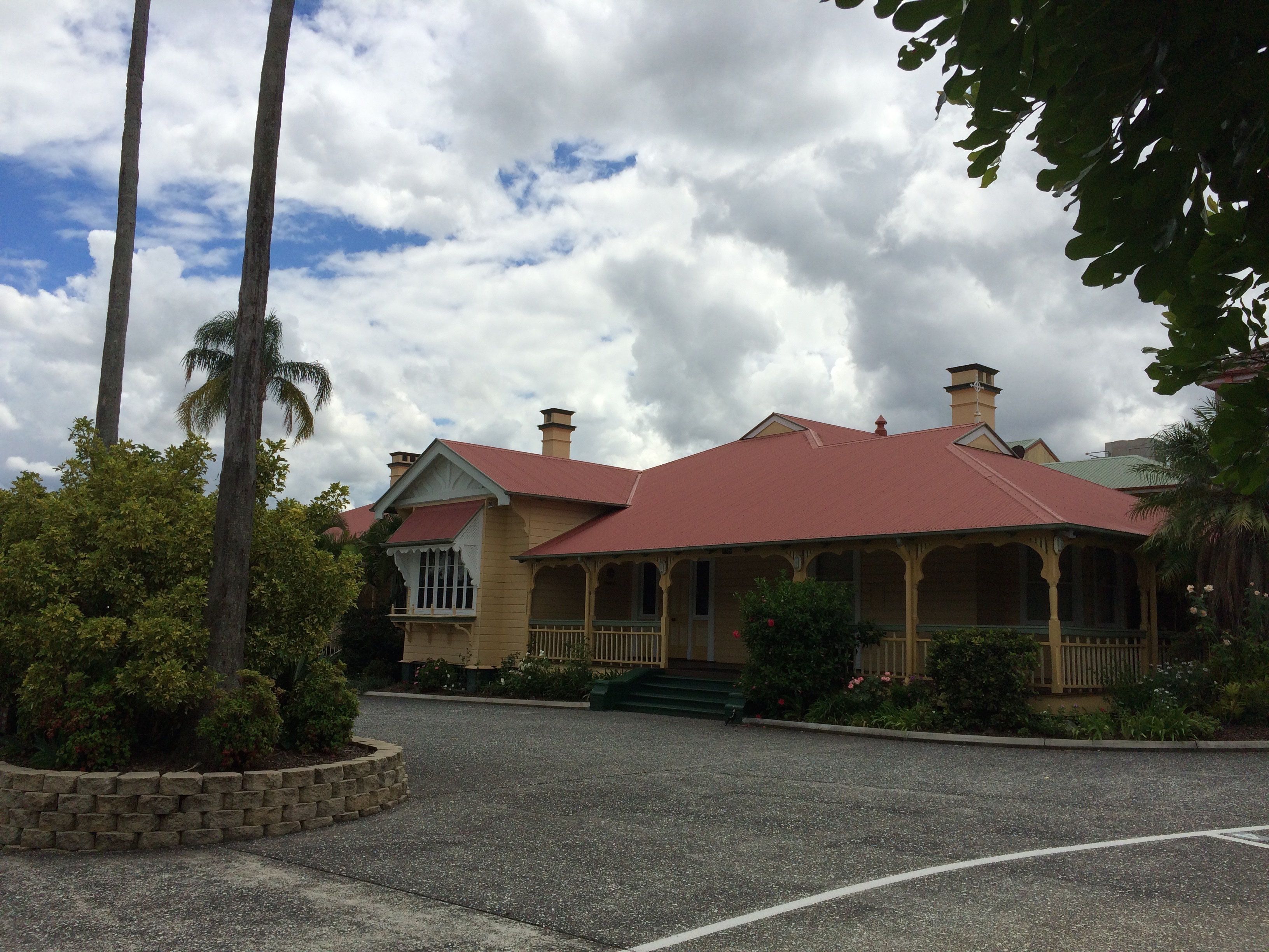 Grantully, now part of Mt St Michael's College, 74 Elimatta Drive, Ashgrove, 2015